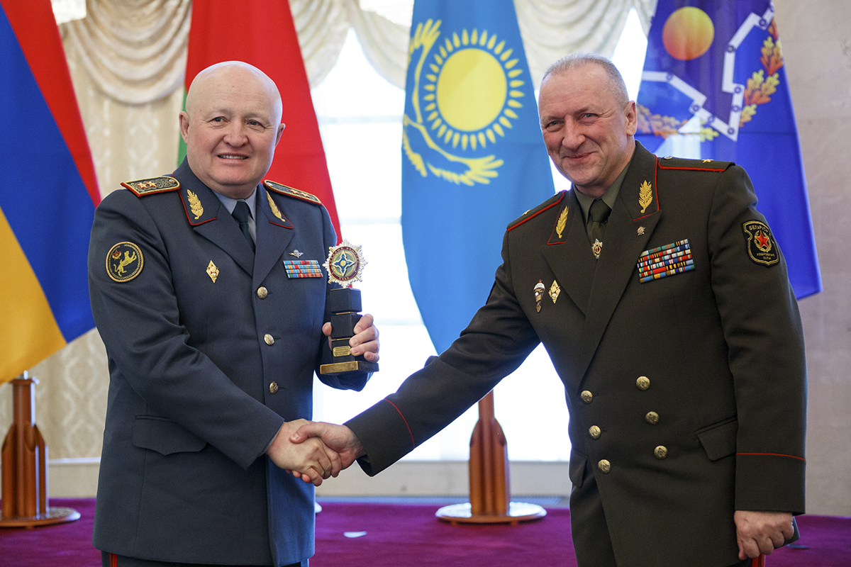 Сегодня в Нур-Султан состоялось заседание Военного комитета Организации Договора о коллективной безопасности (ОДКБ).